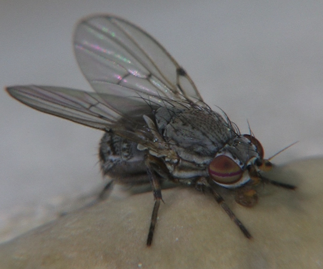 Odinia cf. boletina on Fomes fomentarius growing on a fallen down tree. Location: forest near Marburg, Hesse, Germany.